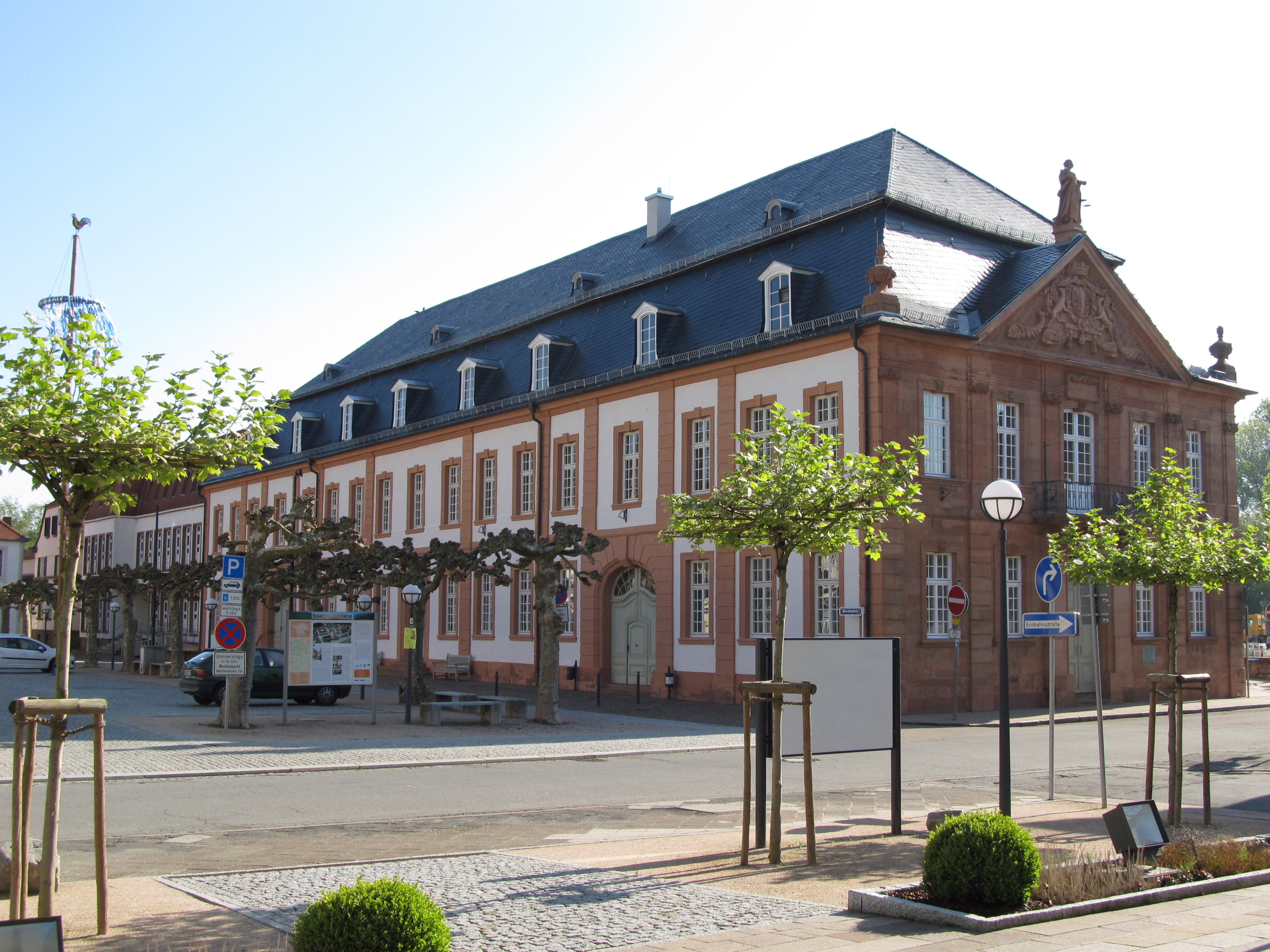 Blieskastel City Hall